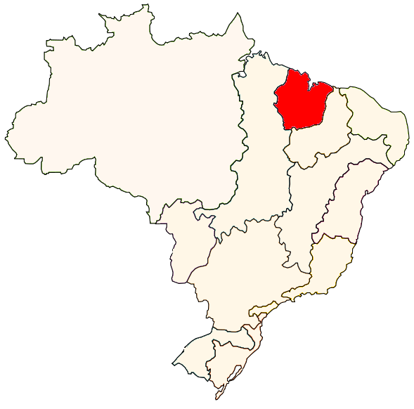 Hydrographics regions in Brazil - Atlântico Nordeste Ocidental